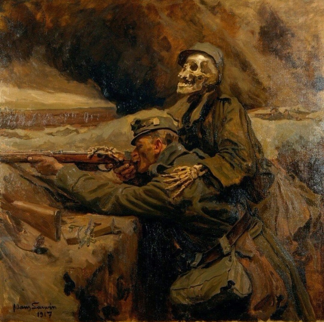 Death and the Soldier